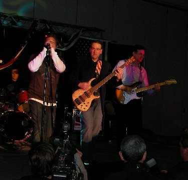 Original caption: Former Gov. Mike Huckabee, R-Ark., performs with his band "Capitol Offense" at the Republican Party of Iowa's Lincoln Day Dinner -- April 14, 2007 in Des Moines. Read coverage: Mike Huckabee's band at the Lincoln Day Dinner in Des Moines